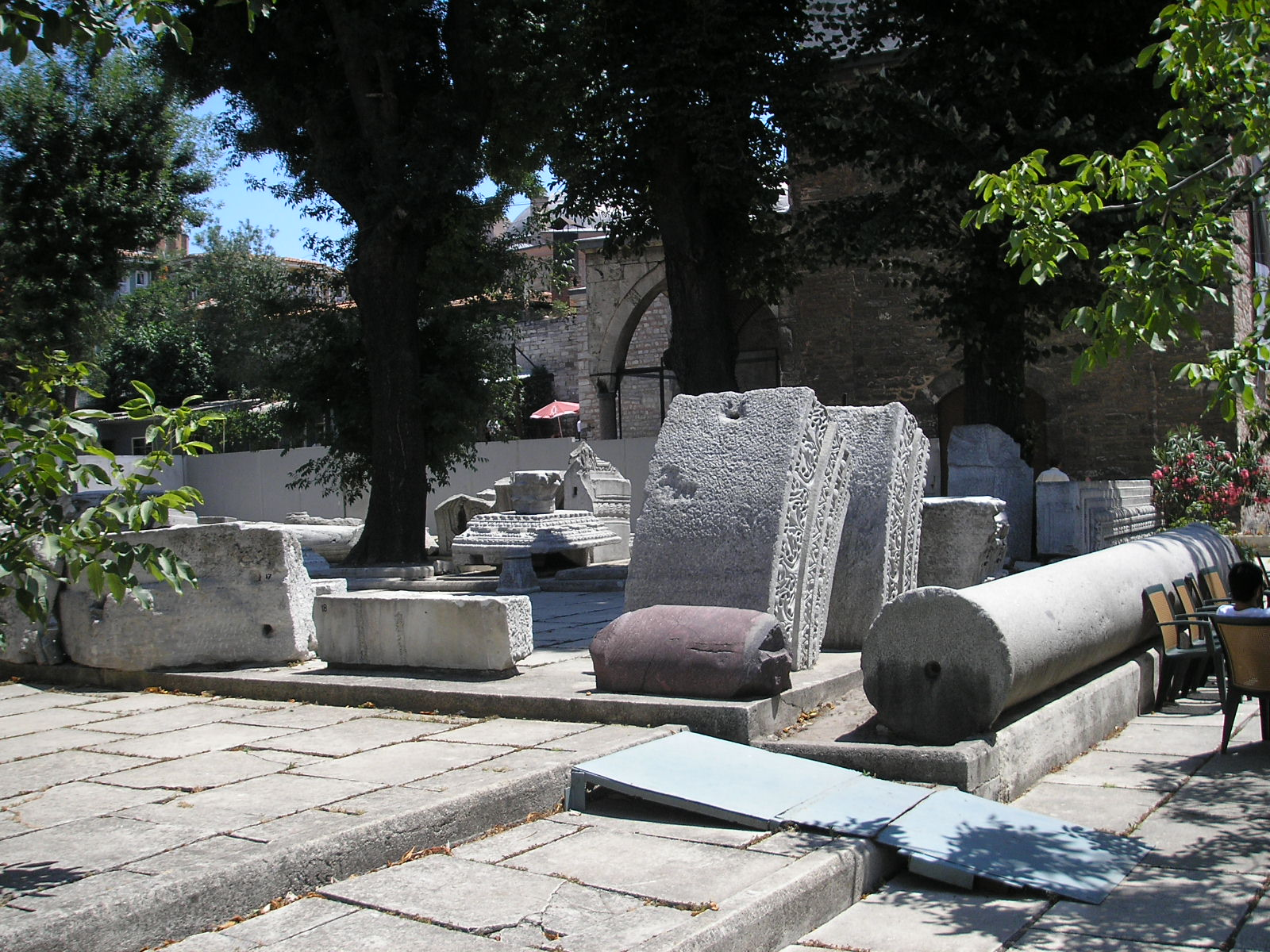 Images of the remains of the basilica that was constructed during the reign of emperor Theodosius II and stood from 415 AD. - 532 AD. Remains are exhibited next to the current Hagia Sophia.